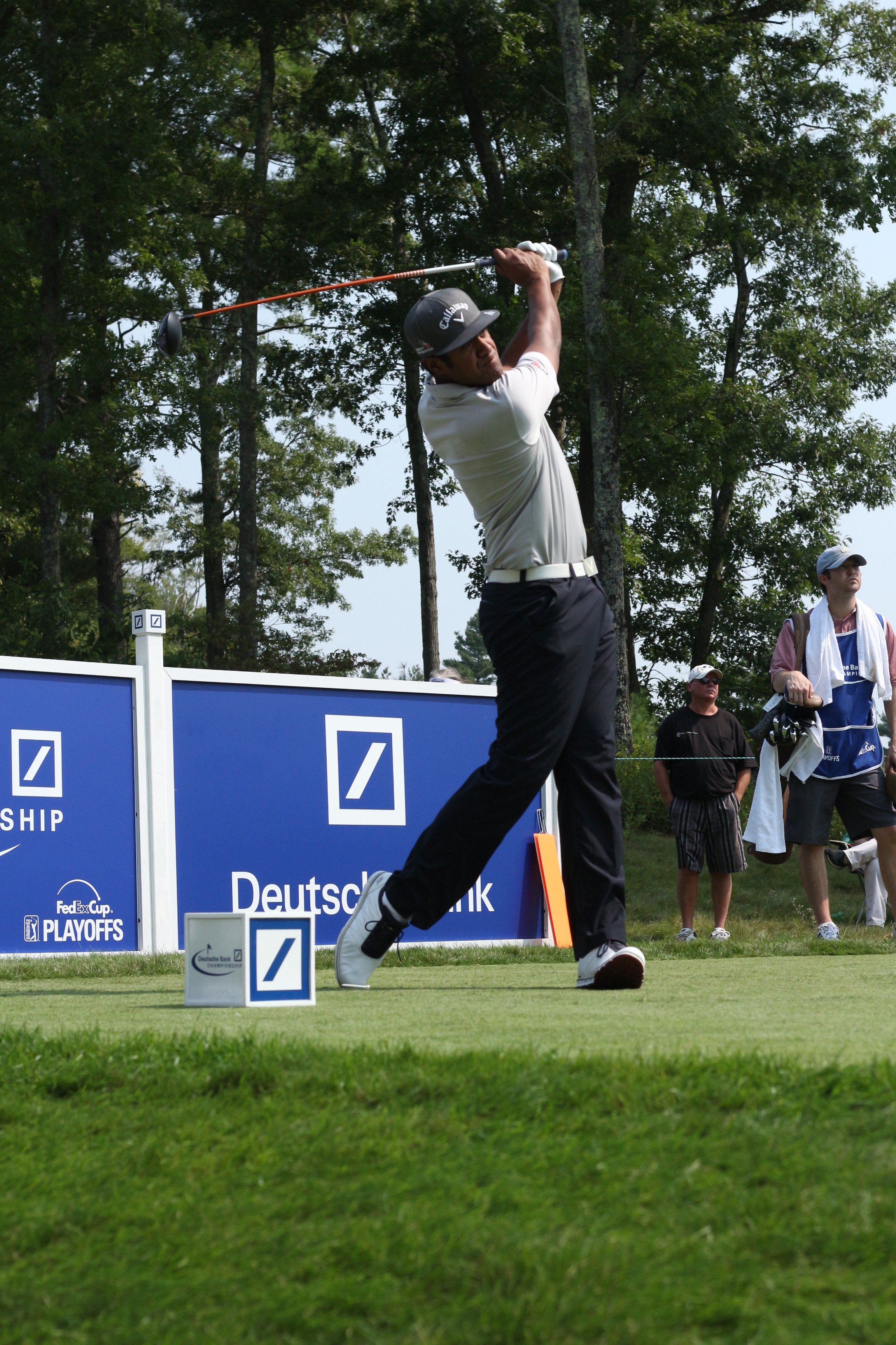 Tony Finau teeing off. Photo by Preston Hazard.